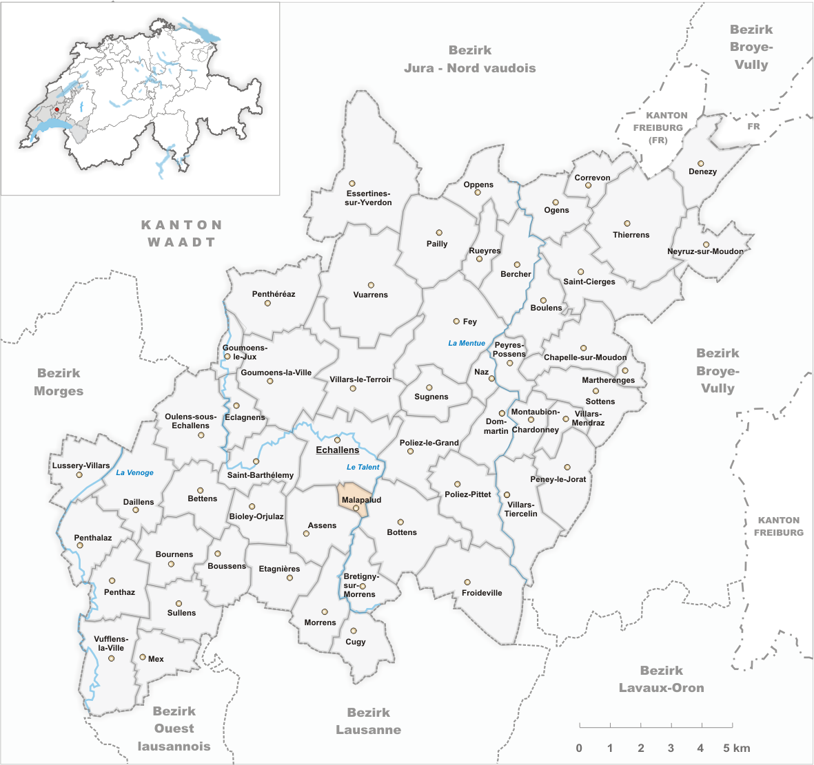 Municipality Malapalud